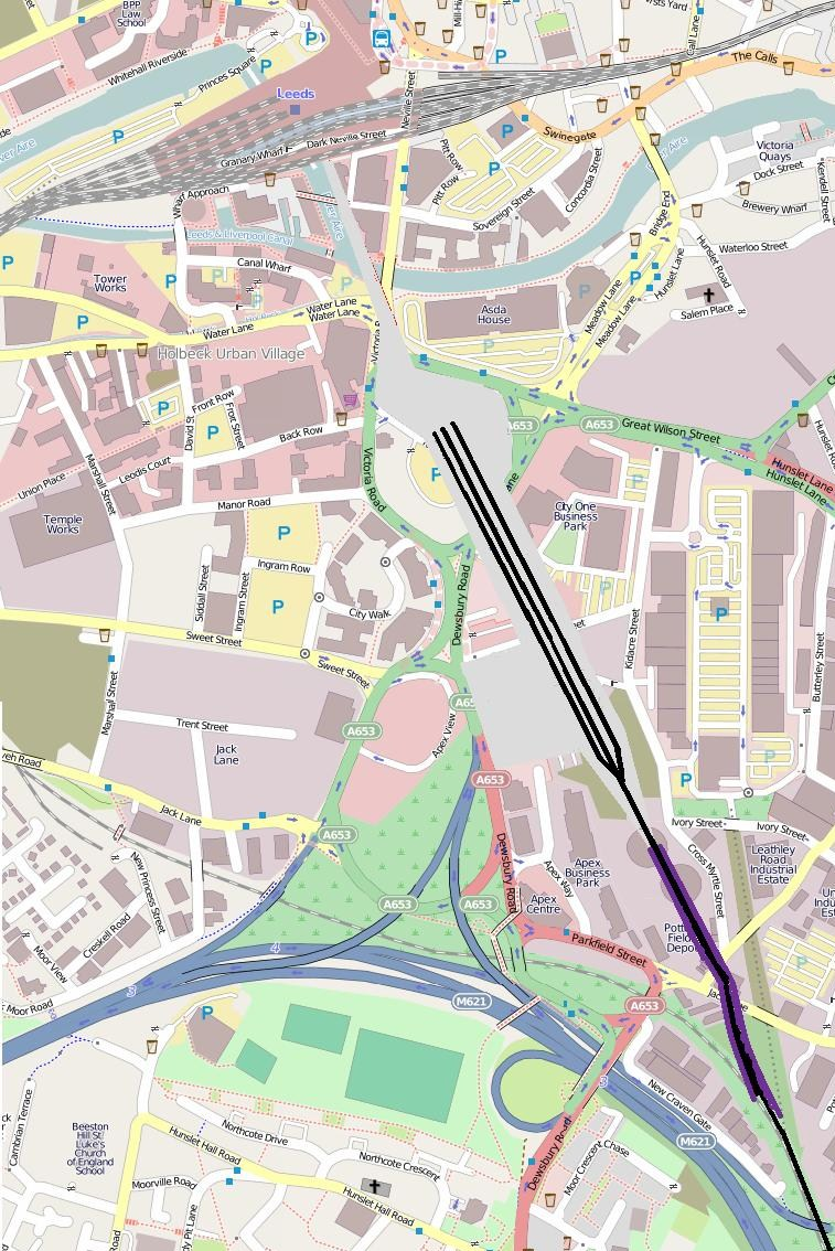 The proposed site of Leeds New Lane railway station. Taken from Open Street Map on 31st of January 2013. The black lines represent the track, the grey area the approximate operational station area (including the walkway to City Station) while the purple lines show the approximate extent of the viaduct.